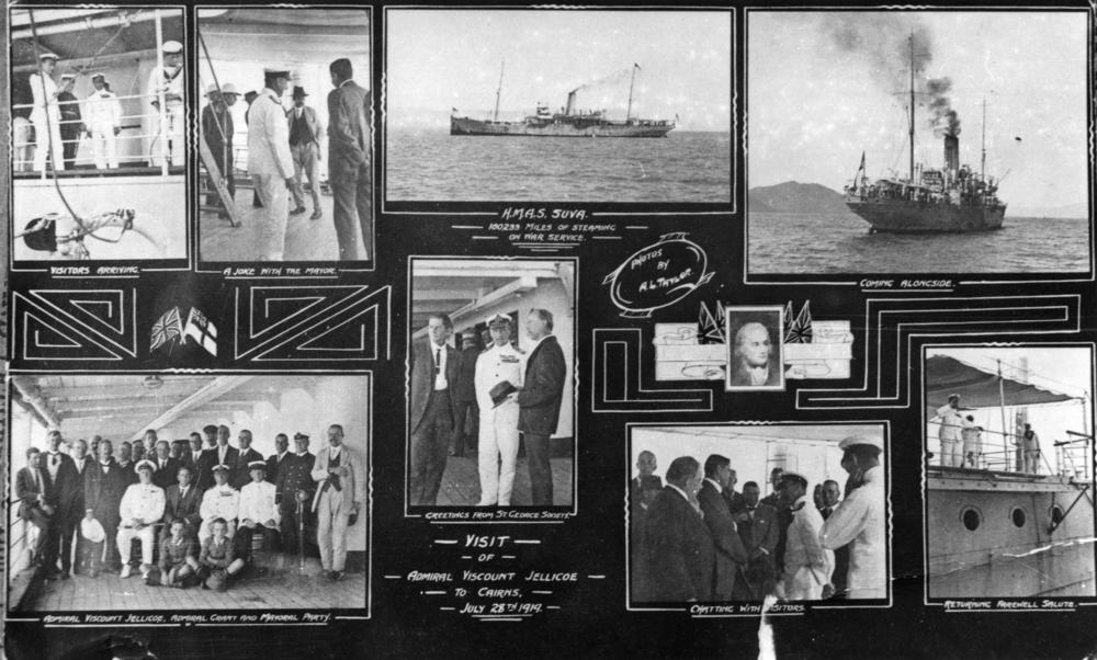 Suva (ship) Collage of commemorative photographs, including the visit of Admiral Viscount Jellicoe meeting with Naval officers and a Mayoral party on board the H.M.A.S. Suva. at Cairns. The collage also recognises the First World War service of this ship.